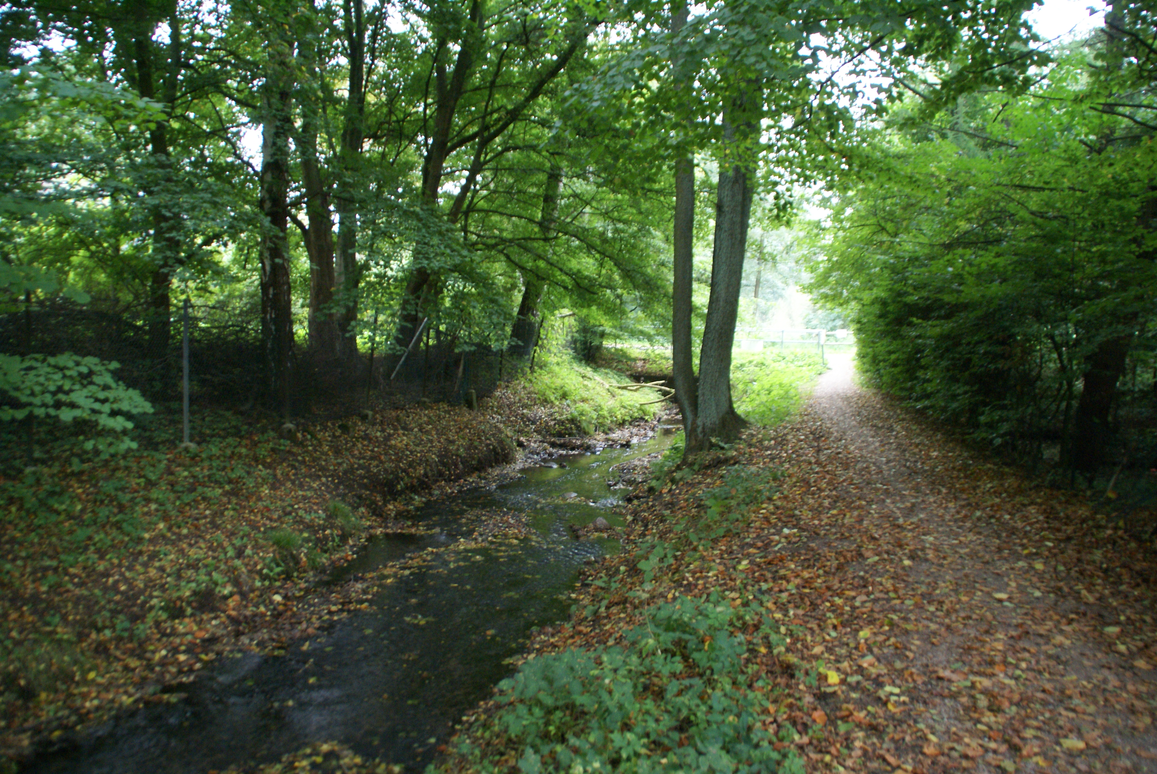 Sasel (Germany): The Saselbek near the Achtern Hollenbusch Street